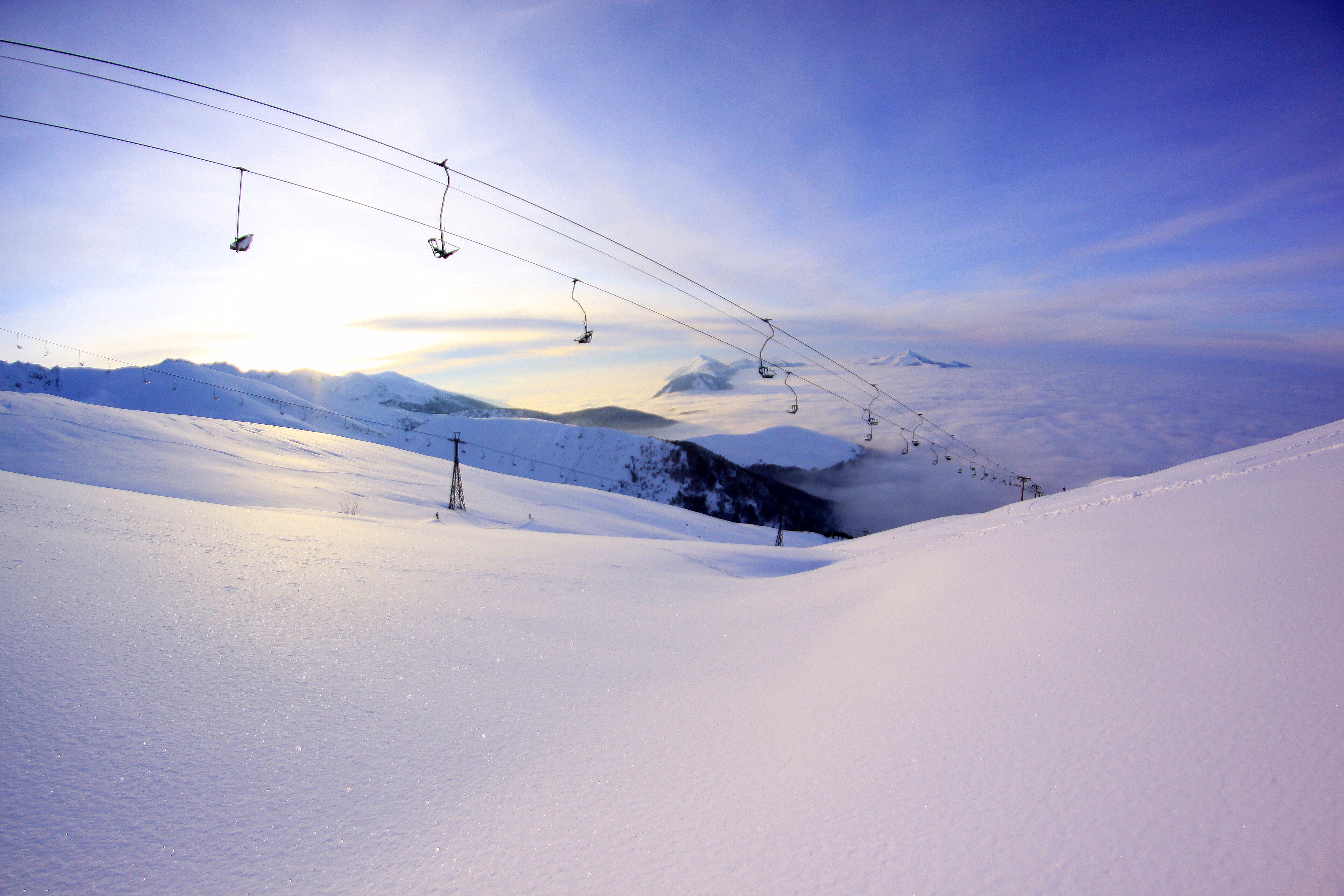 Main Brezovica ski centre run, Shterpce municipality, Kosovo